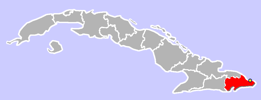 Location of Baracoa (yellow), in Guantánamo Province (red), southeastern Cuba.